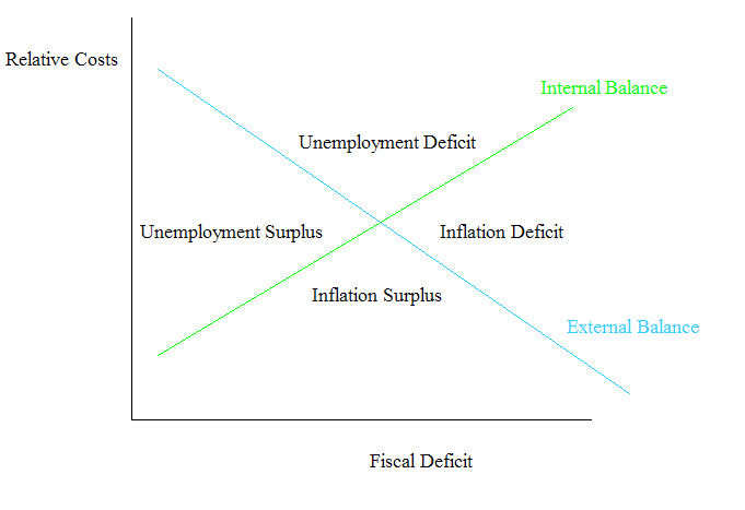 Simple Swan model of the economy